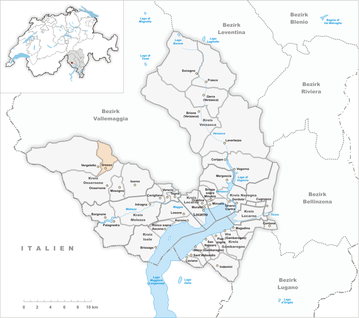 Municipality Gresso